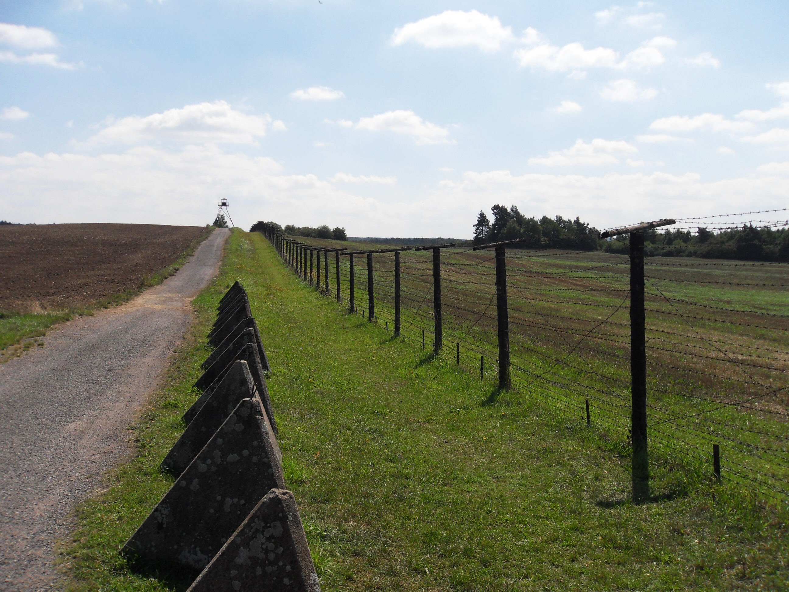 Remains of Iron Curtain, Čížov, Horní Břečkov, Znojmo district, Czech Republic